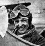 Lady Mary Bailey